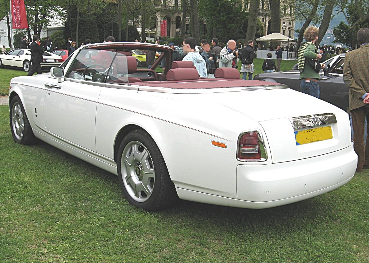 Subject: Rolls-Royce Phantom Drop Head Coupé Author:Luc106 Date:April 27th, 2008 Event:Concorso d’Eleganza”Villa d’Este” 2008 Place/Country: Cernobbio (CO), Italy I release all rights in the public domain.